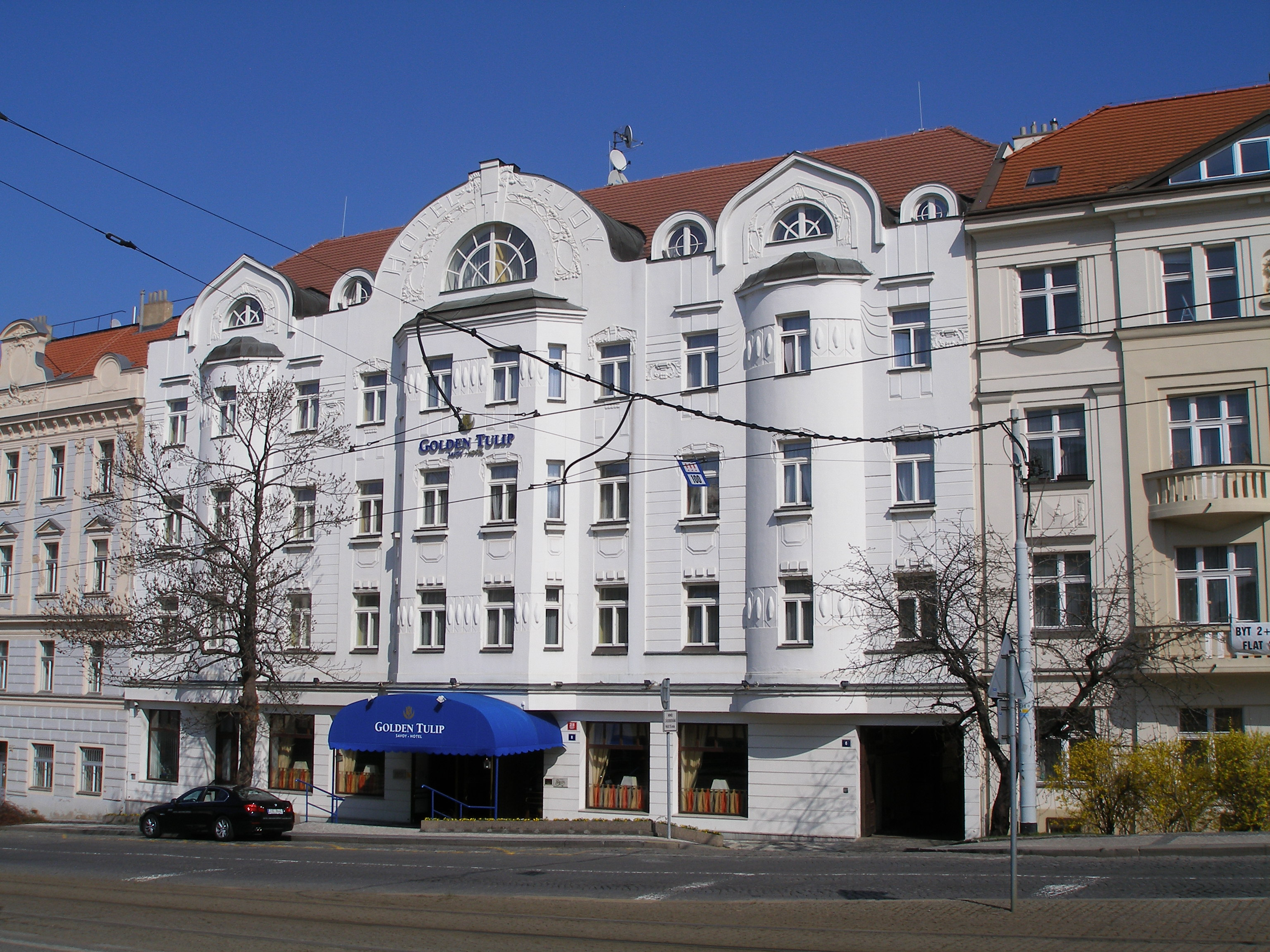 Hotel Savoy in PragueEesti: Hotell "Savoy" Prahas